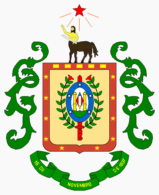 Coat of arms of Military Police - BMRS - Brazil.